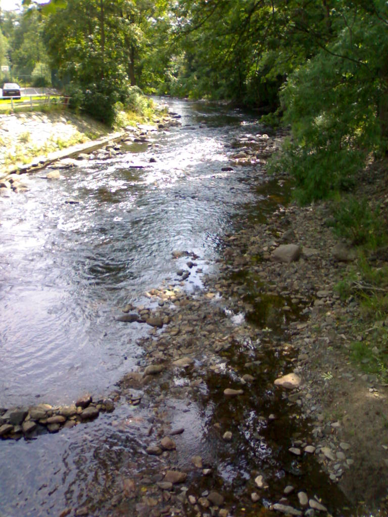 Divoká Orlice in Klášterec nad Orlicí